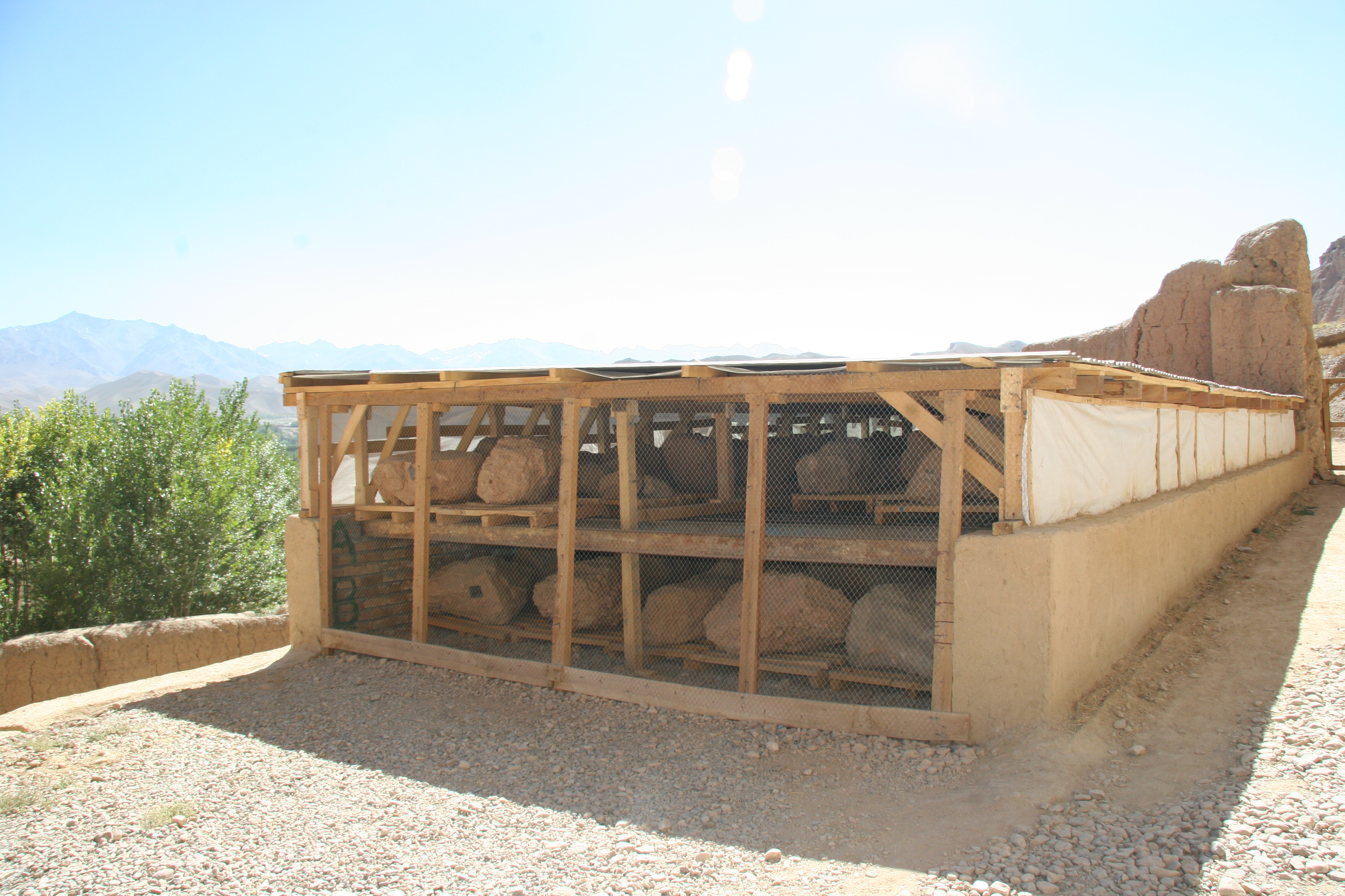 Boulders from Destroyed Buddha